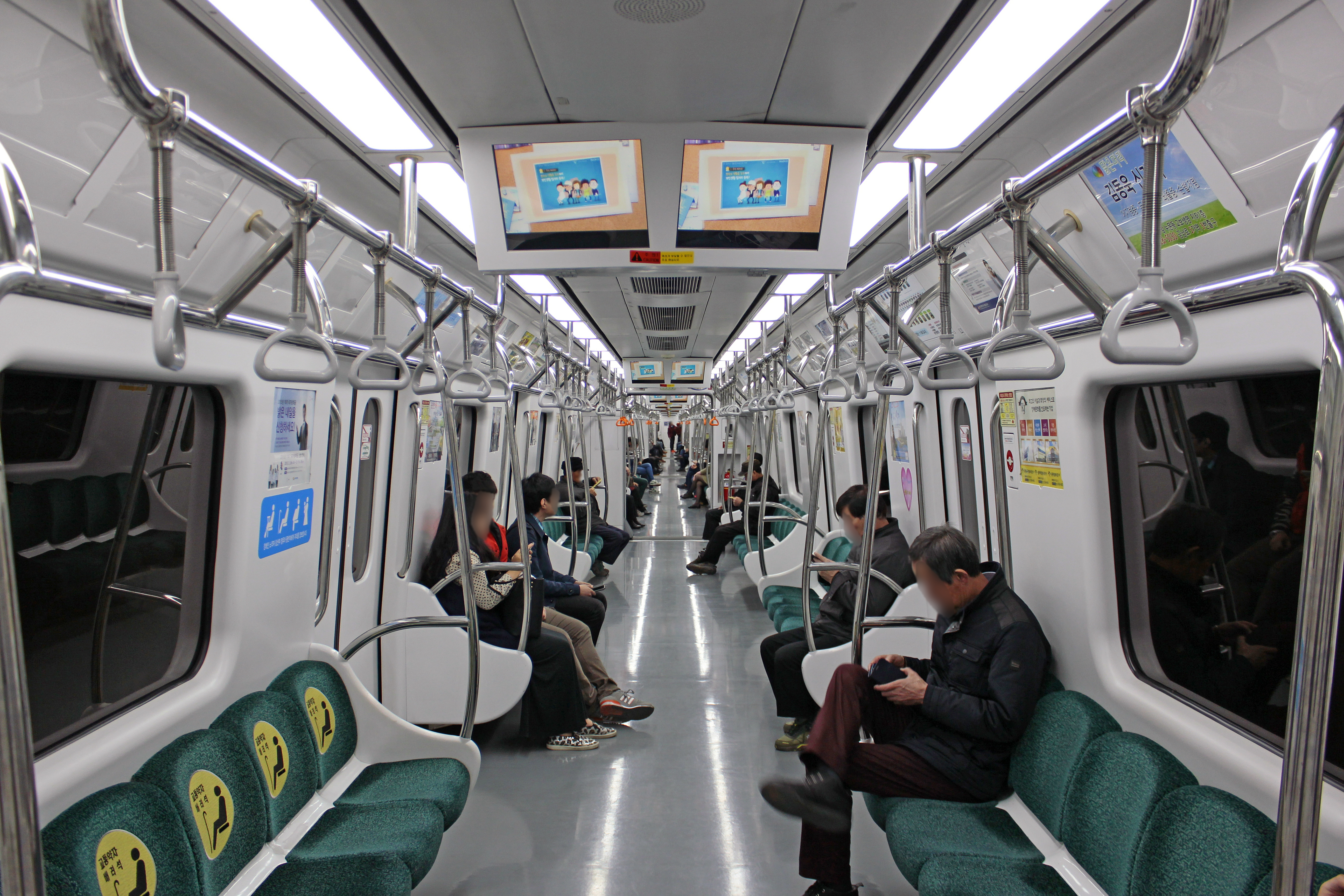 Gwangju Metro Class 1000 Interior